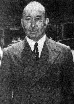 Iraqi former Prime-Minister Ali 'Jawdat' Al-Ayoubi